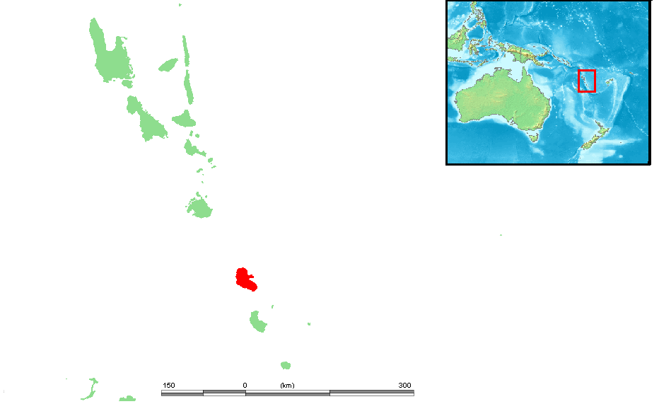 Island of Vanuatu - Erromango.PNG